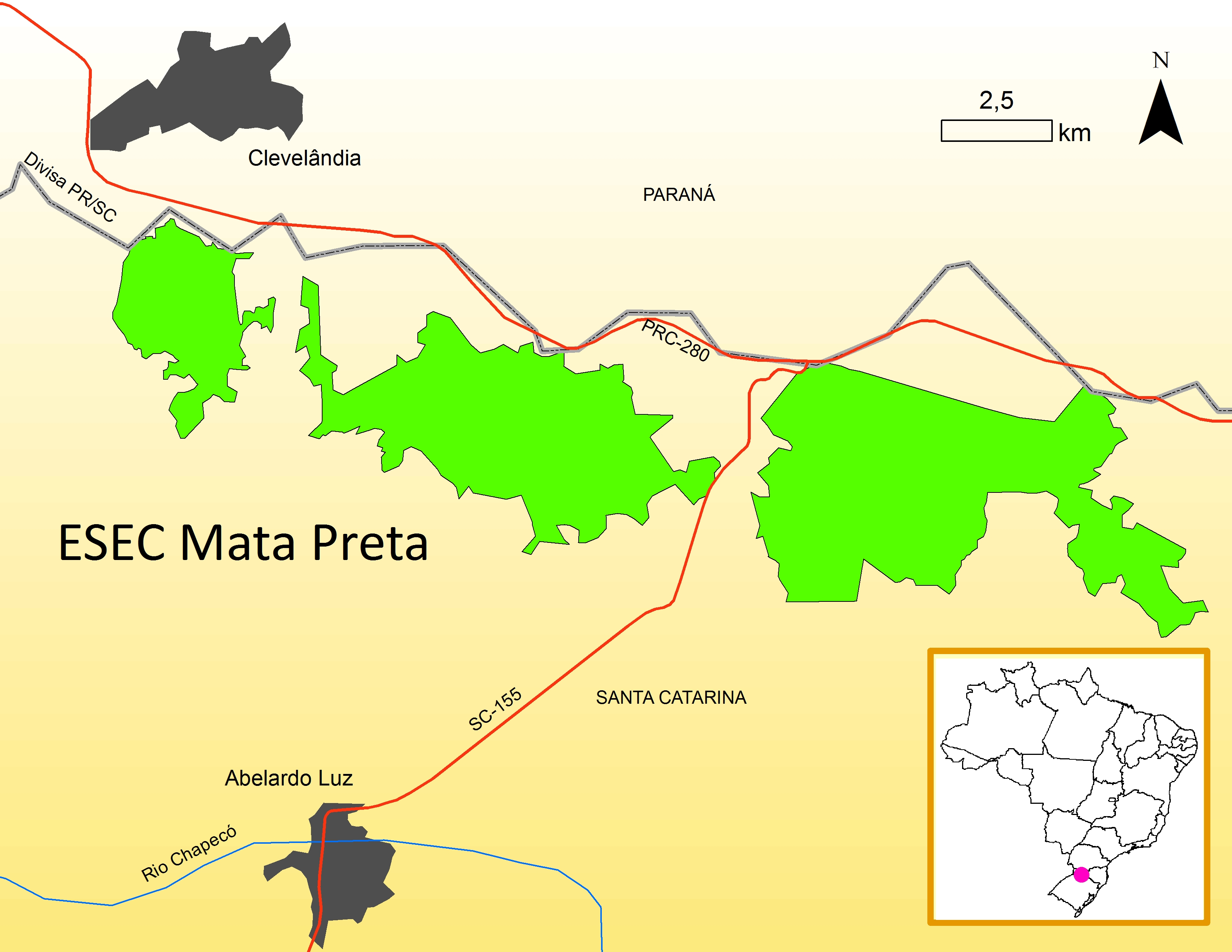 Mapa da ESEC Mata Preta.